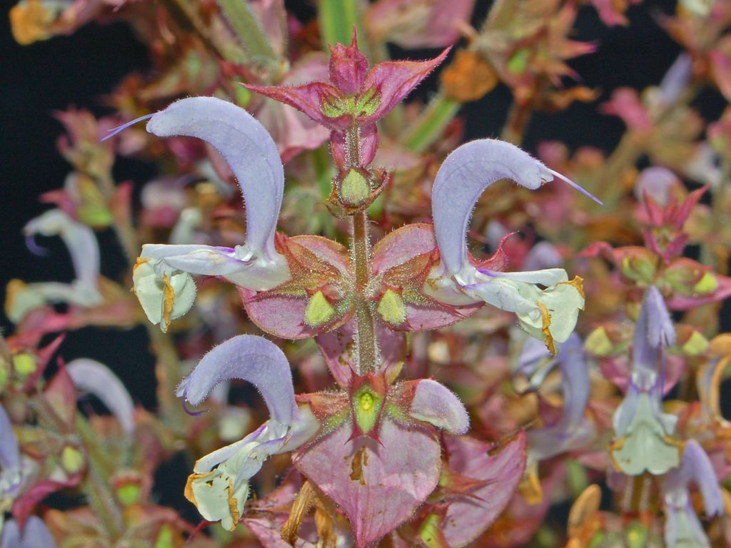 Salvia sclarea - S. Agata Fossili, Alessandria, Italy